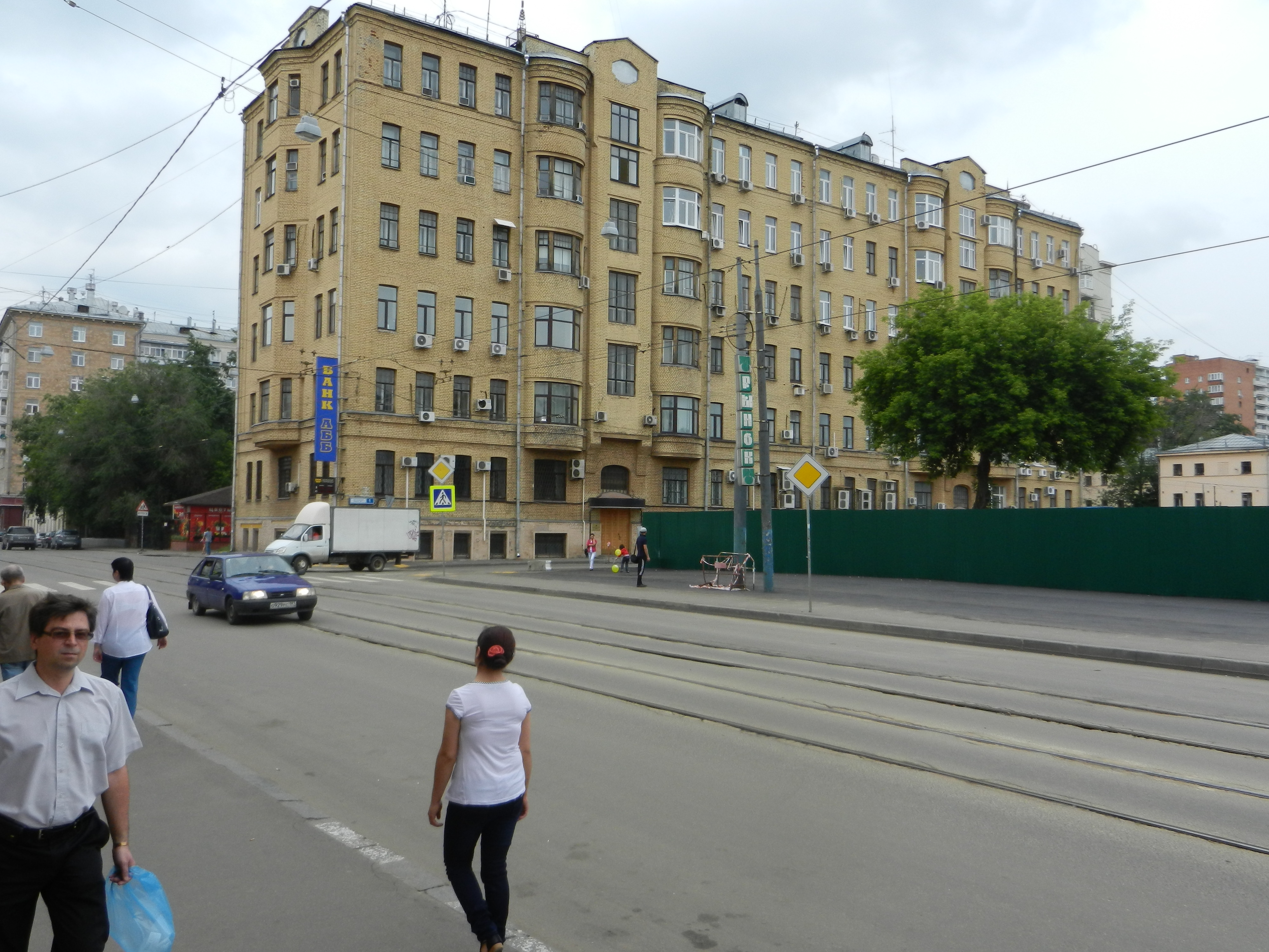 Tenement house built in 1912 at Baumanskaya street, 43